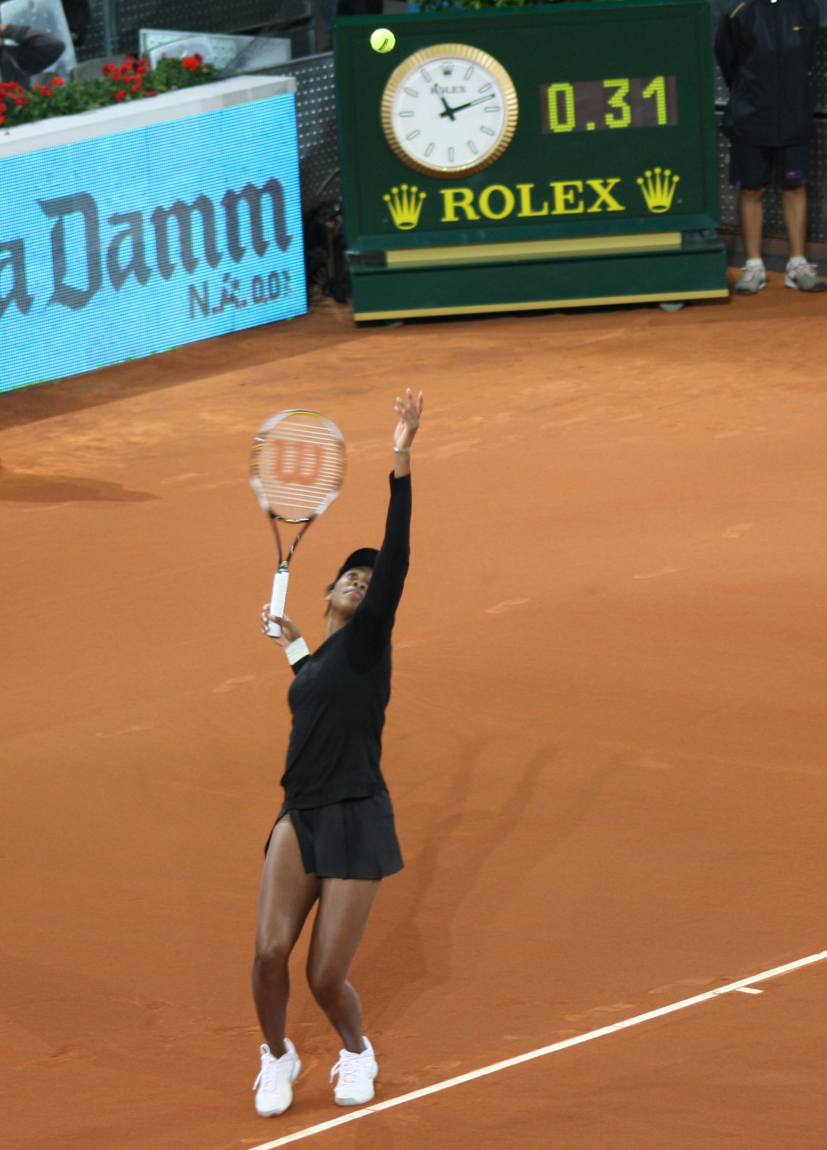 Venus Williams at the 2010 Mutua Madrileña Madrid Open